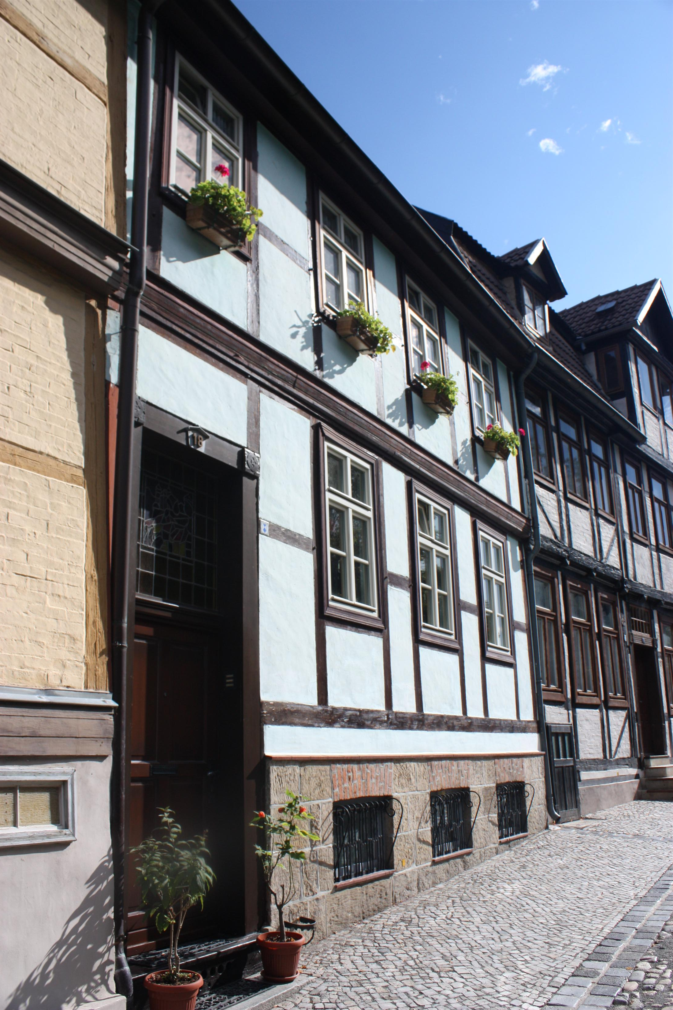 This is a photograph of an architectural monument.It is on the list of cultural monuments of Quedlinburg Quedlinburg Schloßberg